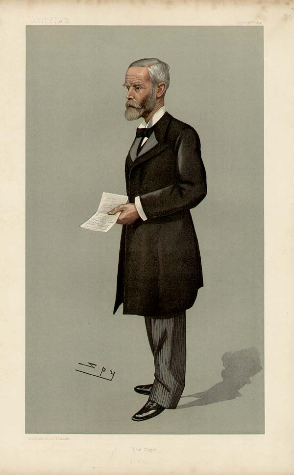 Caricature of The Rt Hon Sir JG Sprigg. Caption read "The Cape".